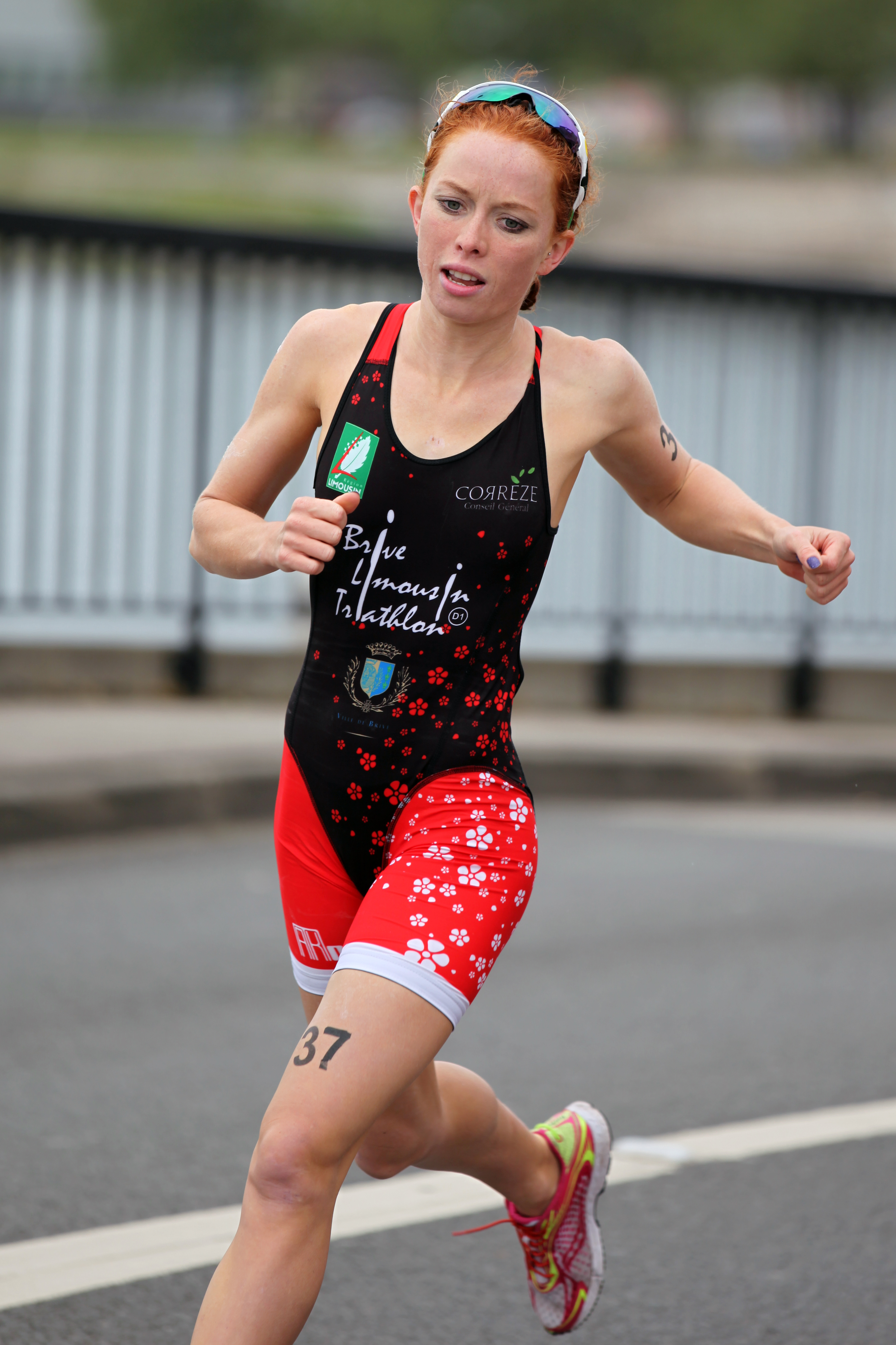 Charlotte McShane at the French Grand Prix opening triathlon in Dunkirk (Dunkerque).